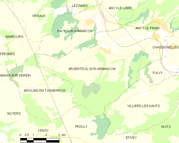 Map of French municipality Argenteuil-sur-Armançon